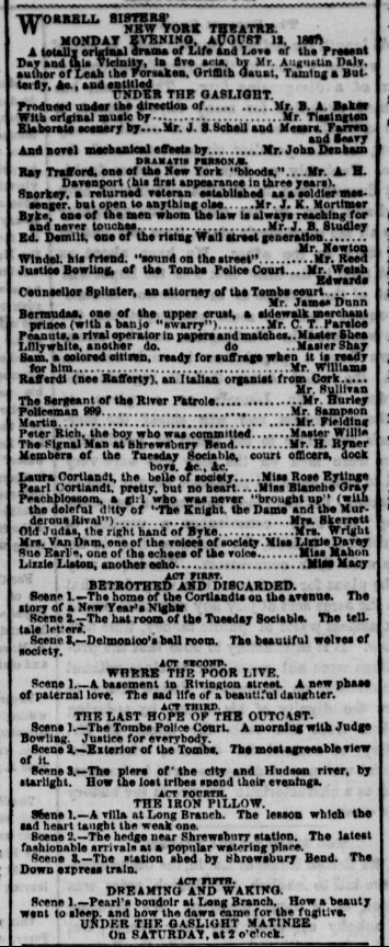 Advertisement for the first performance of the play 'Under the Gaslight' appearing in the New York Herald on August 11, 1867, p.3